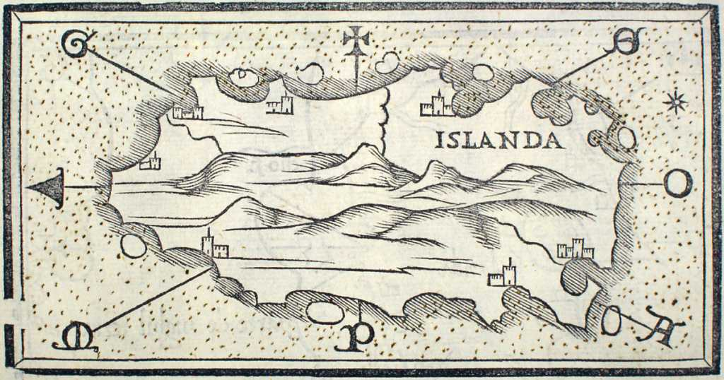 Map published in Italy